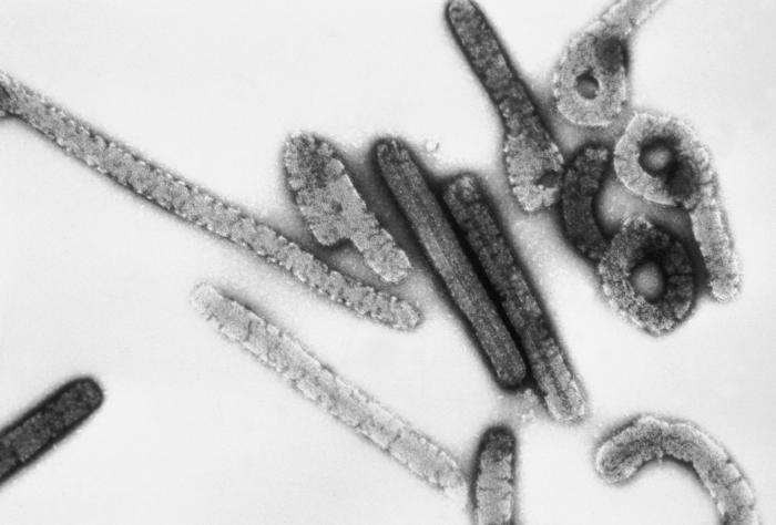 This negative stained transmission electron micrograph (TEM) depicts a number of filamentous Marburg virions, which had been cultured on Vero cell cultures, and purified on sucrose, rate-zonal gradients. Note the virus’s morphologic appearance with its characteristic “Shepherd’s Crook” shape; Magnified approximately 100,000x. Marburg hemorrhagic fever is a rare, severe type of hemorrhagic fever which affects both humans and non-human primates. Caused by a genetically unique zoonotic (that is, animal-borne) RNA virus of the filovirus family, its recognition led to the creation of this virus family. The four species of Ebola virus are the only other known members of the filovirus family. Marburg virus was first recognized in 1967, when outbreaks of hemorrhagic fever occurred simultaneously in laboratories in Marburg and Frankfurt, Germany and in Belgrade, Yugoslavia (now Serbia).